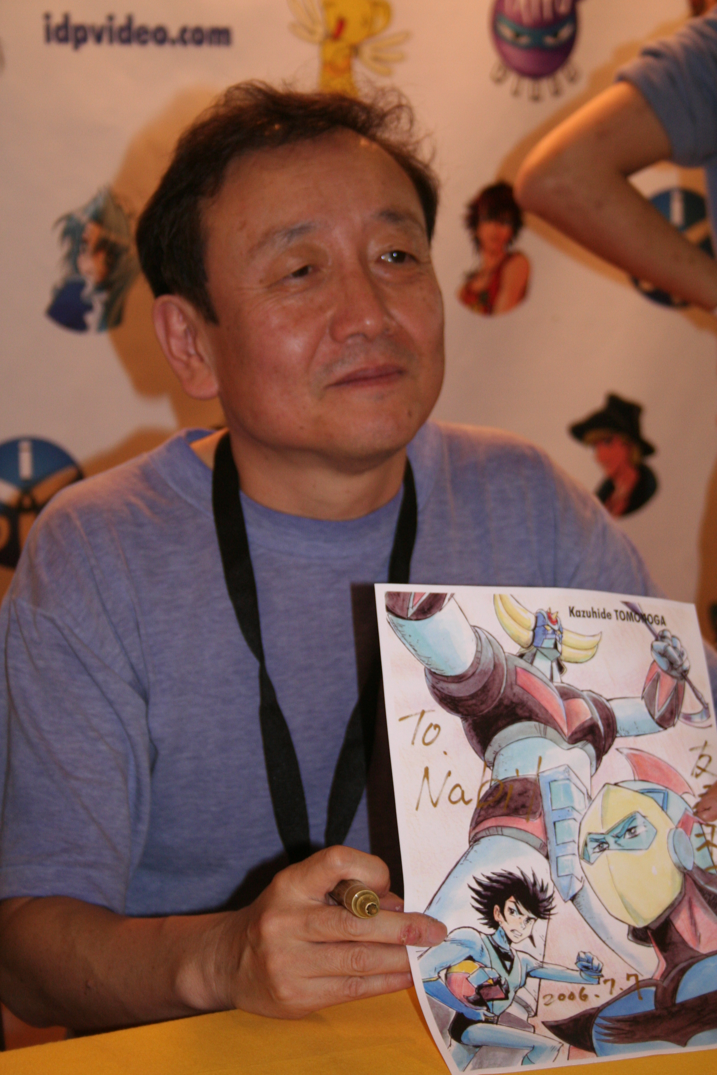 Autograph session with Kazuhide Tomonaga at Japan Expo 2006 (Paris, France).